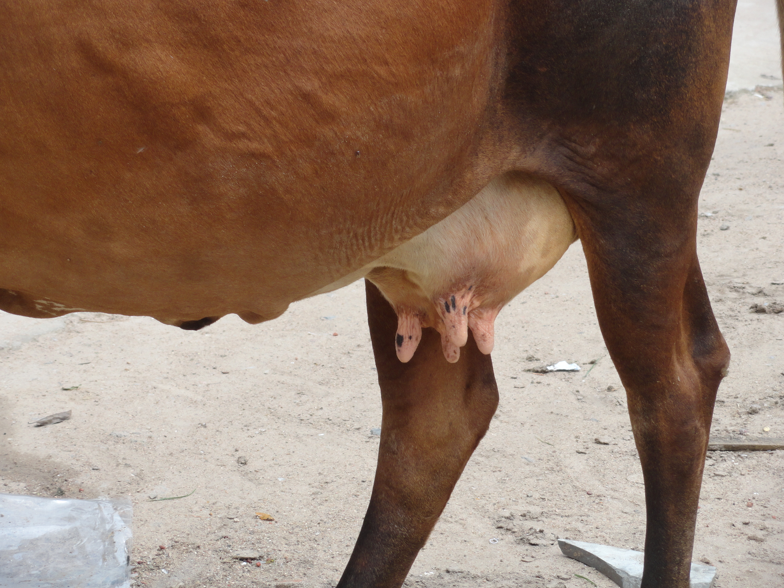 ఆవు పొదుగు